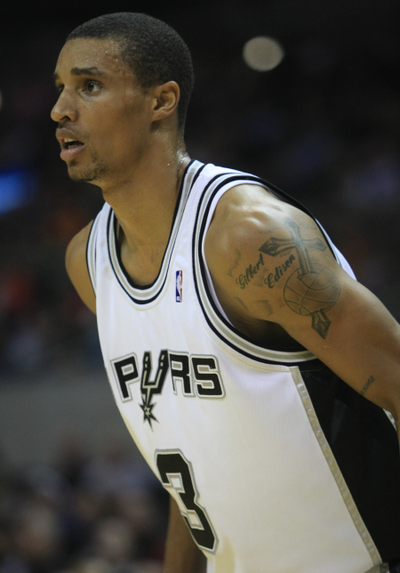 The Spurs' George Hill looks for a pass Friday night Oct. 10, 2008 at the AT&T Center in San Antonio during the Spurs' pre-season home opener of the 2008-2009 season against the New Orleans Hornets.